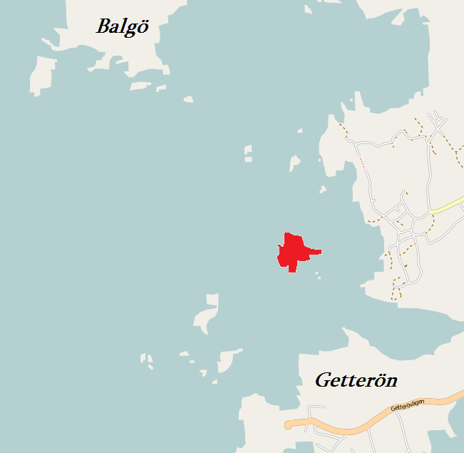 Map with Bondaholmen highlighted. This map may be incomplete, and may contain errors. Don't rely solely on it for navigation.